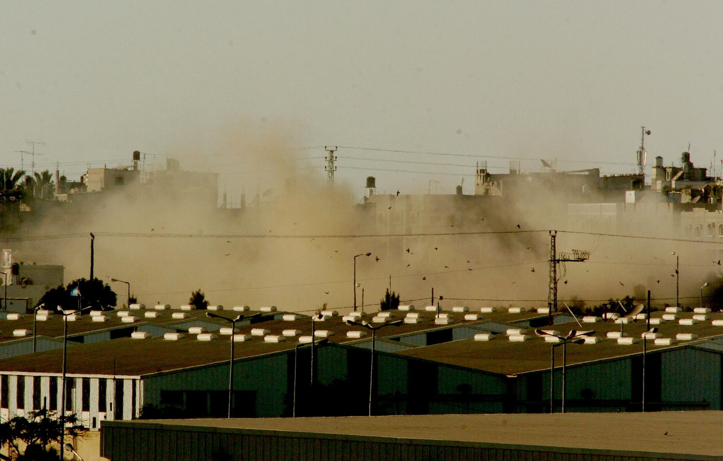 August 30, 2006 A detonated tunnel, originally designed to facilitate terror attacks in Israeli territory, located near the Karni humanitarian crossing between Israel and Gaza.